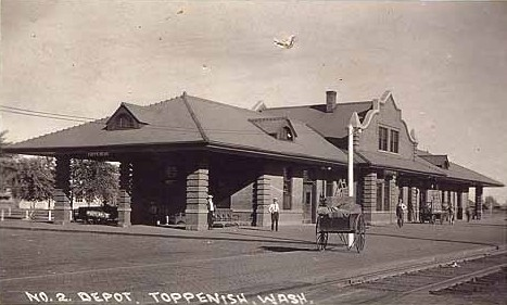 Image looking railroad east of Northern Pacific Railway depot at Toppenish, Washington, after completion of structure in 1911; today the depot is operated as the Northern Pacific Railway Museum